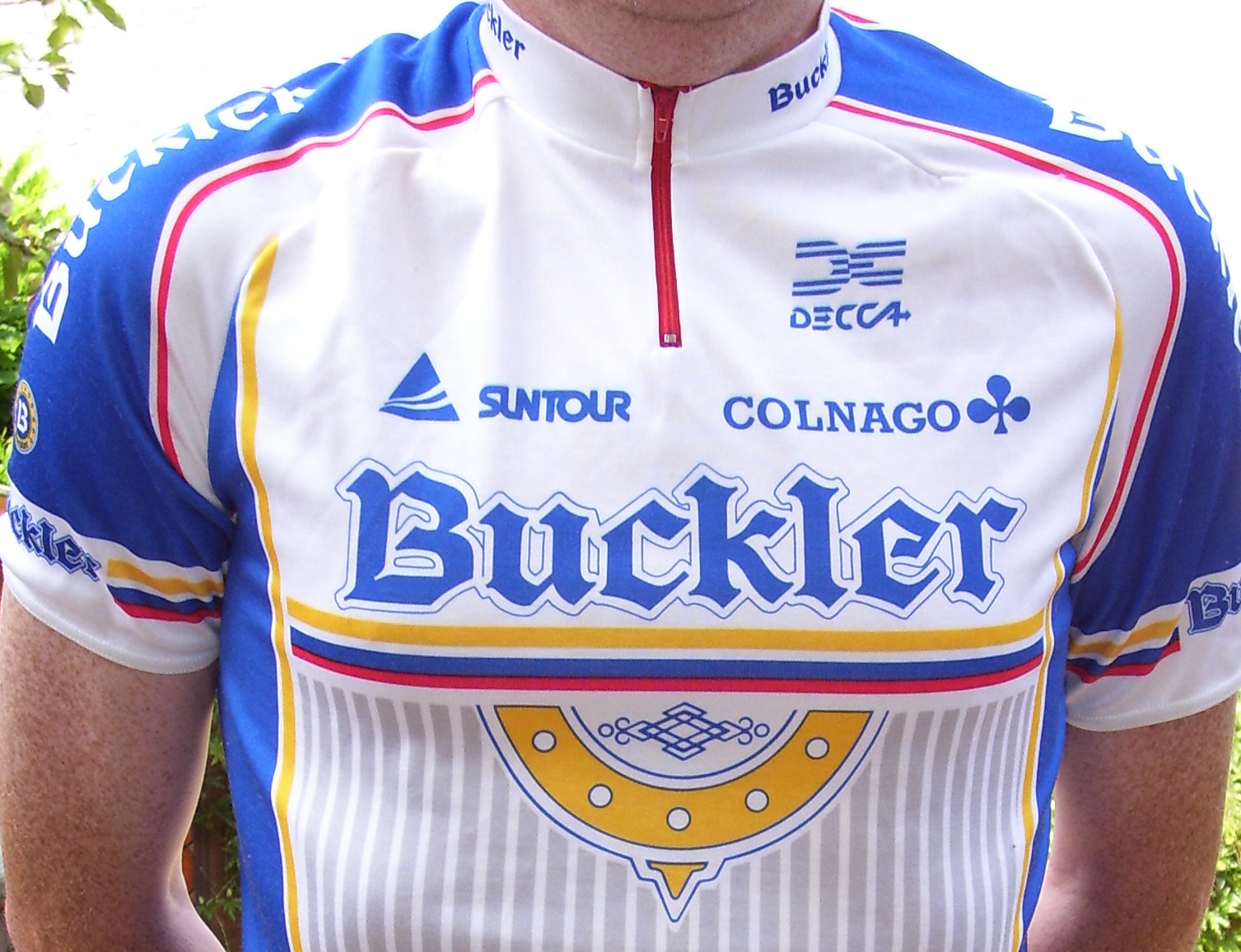 Shirt of the Buckler cycling team